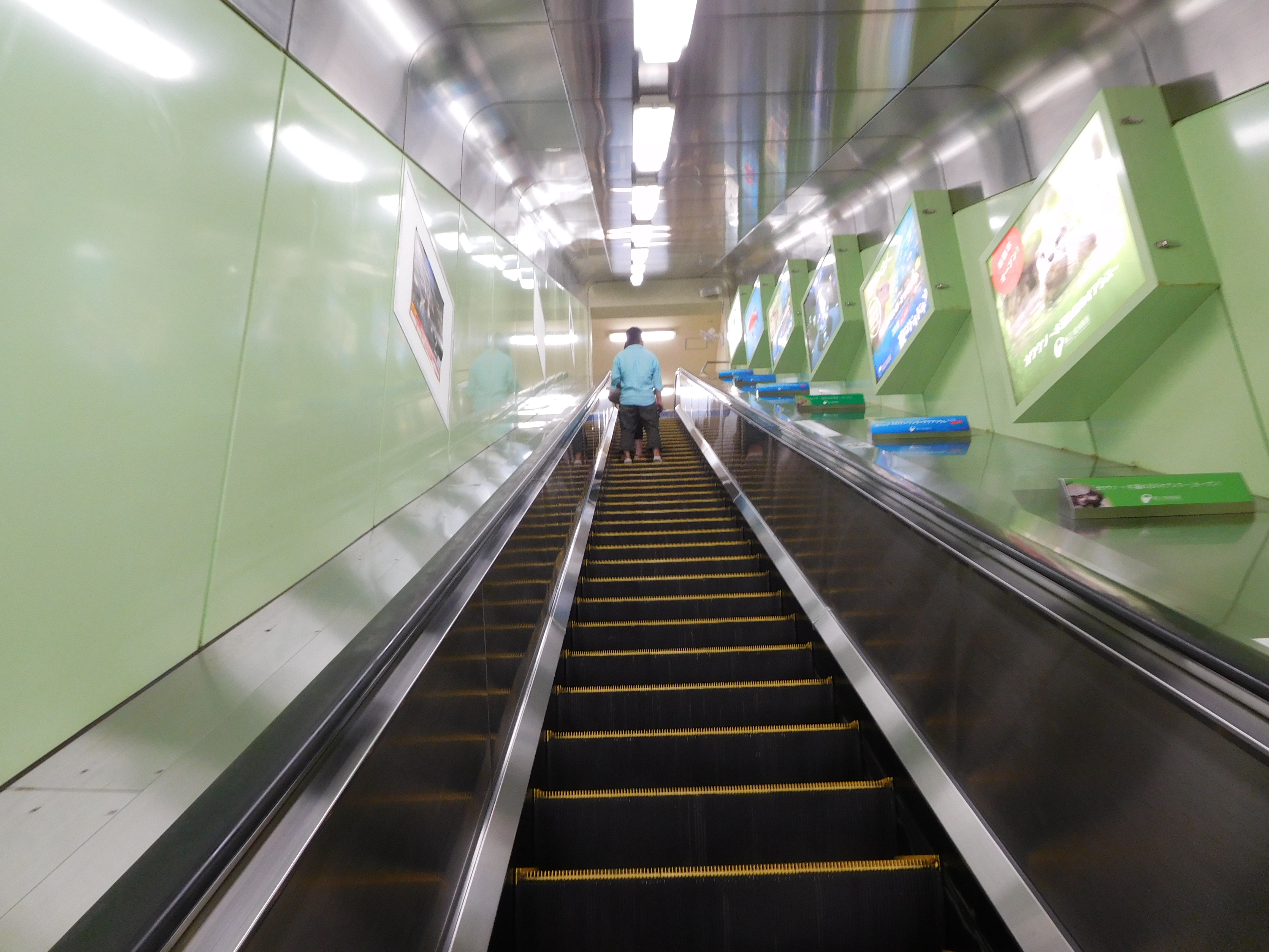 This is a Enoshima Escar, an outdoor toll escalator in Enoshima, Fujisawa, Kanagawa, Japan.